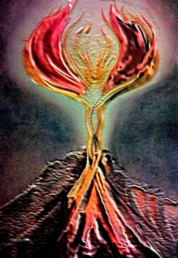 Mountain Deva at Table Mountain, Cape Point (South Africa). Artwork from original illustration created in 1937 by South-African Ethelwynne M. Quail for the work Kingdom of the Gods. That and a whole set of pictures were made under direction by Geoffrey Hodson describing his observations realized between 1921 and 1929. At time of publication, Quail was no longer living, being then the book dedicated to her.